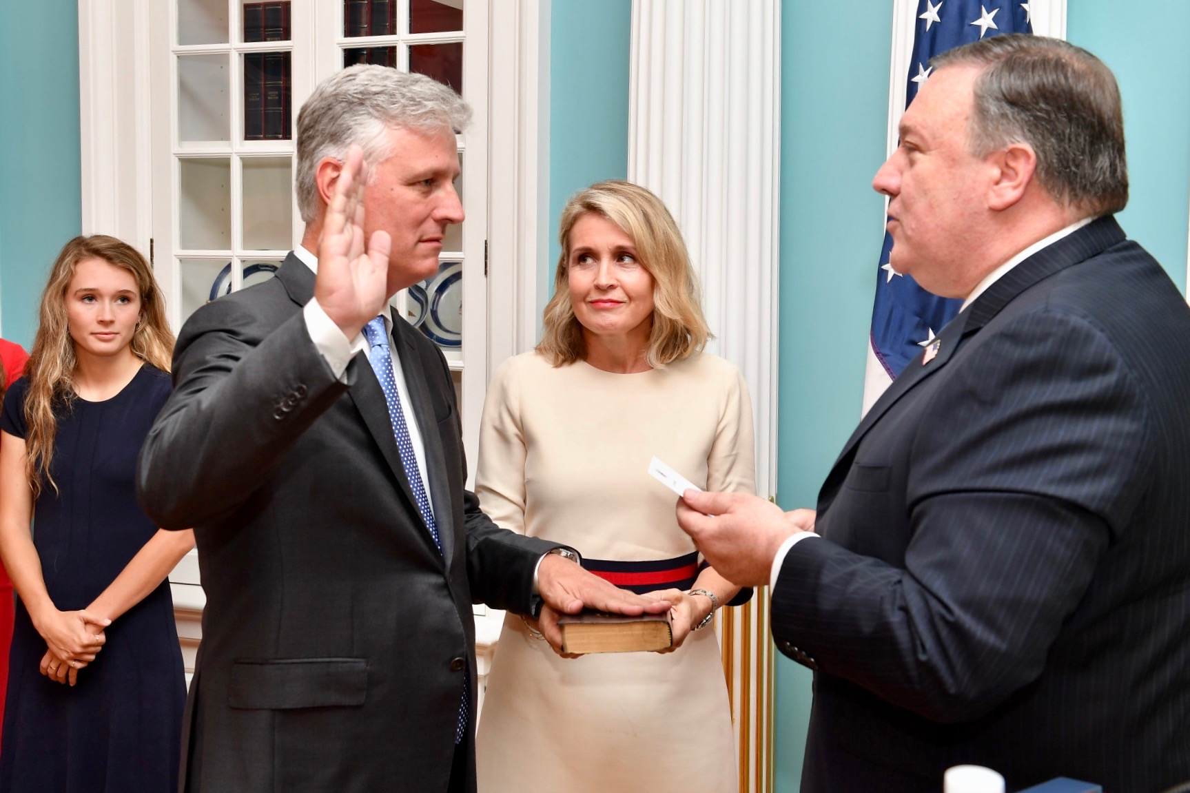 U.S. Secretary of State Michael R. Pompeo officiates the swearing-in ceremony for Robert C. O'Brien as Special Presidential Envoy for Hostage Affairs, at the U.S. Department of State in Washington, D.C. on July 17, 2018. [State Department photo/ Public Domain]